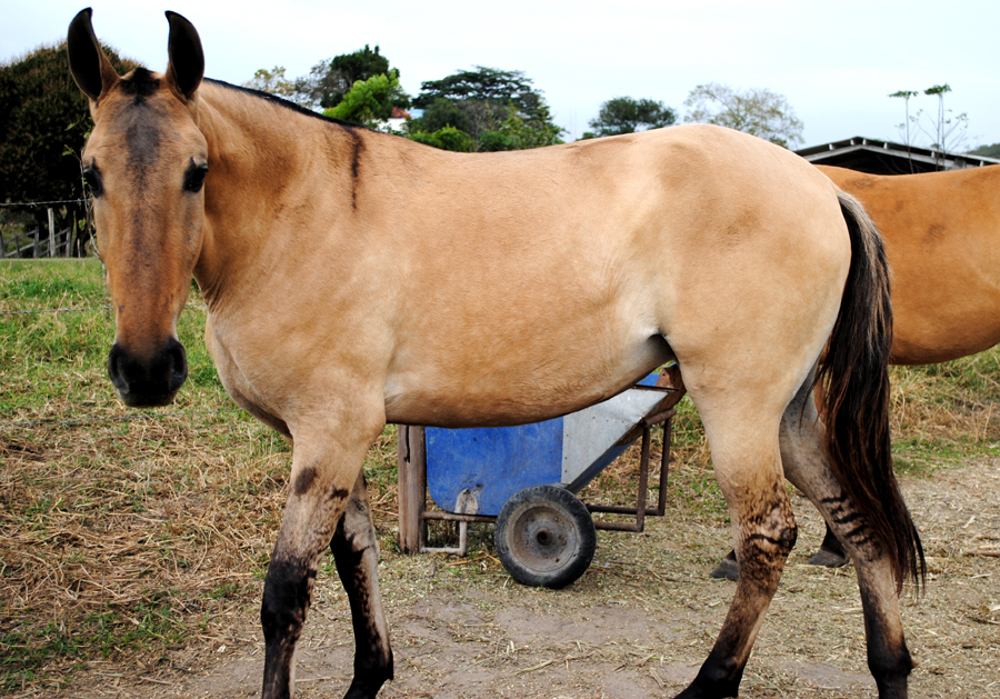 Shows all of the classic primitive markings as displayed on the Campolina breed of Brazil